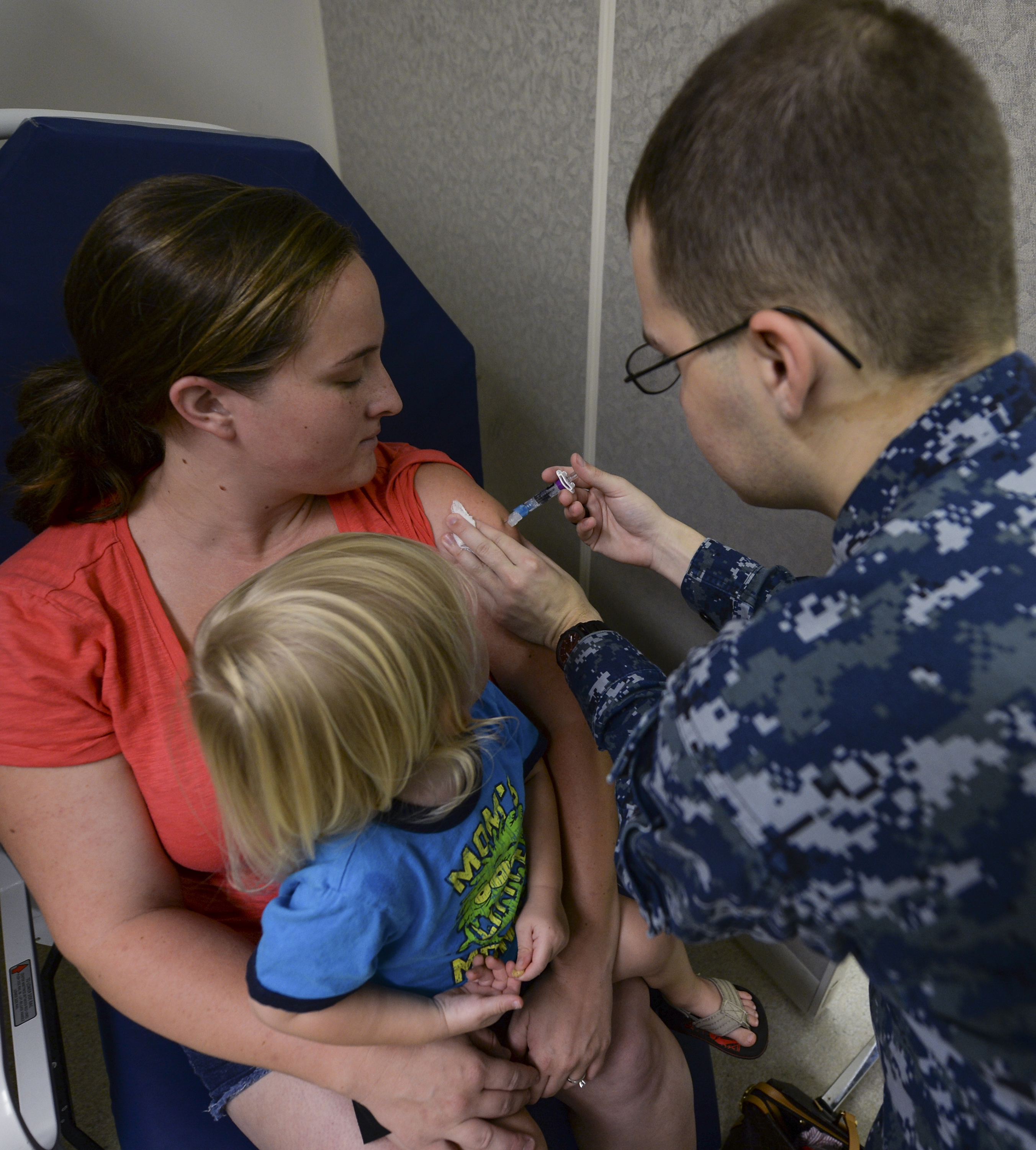 151001-N-GI544-080 PEARL HARBOR (Oct. 1, 2015) Hospital Corpsman 3rd Class Miles Wallace, assigned to Naval Health Clinic Hawaii, right, administers a flu shot to Ashley Kumnick, military dependent, at Joint Base Pearl Harbor-Hickam. (U.S. Navy photo by Mass Communication Specialist 2nd Class Laurie Dexter/Released)